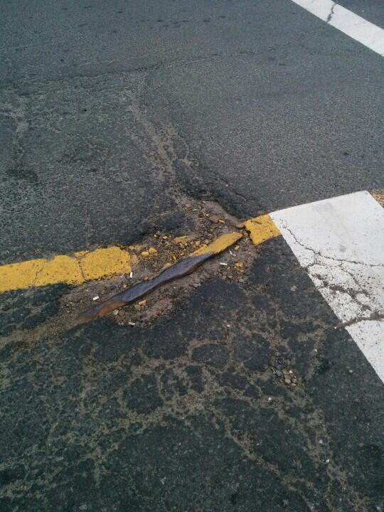 Remnant of the Sudbury Copper Cliff Electric Railway on Lisgar St. at Elm. Photo taken June 9, 2014